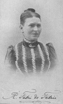 Photo of German writer Maria Schmitz, working under the pseudonyms „Angelika Harten“ and „R. Fabri de Fabris“.